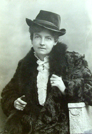 Danish artist (sculptor) Elna Borch, 1869-1950